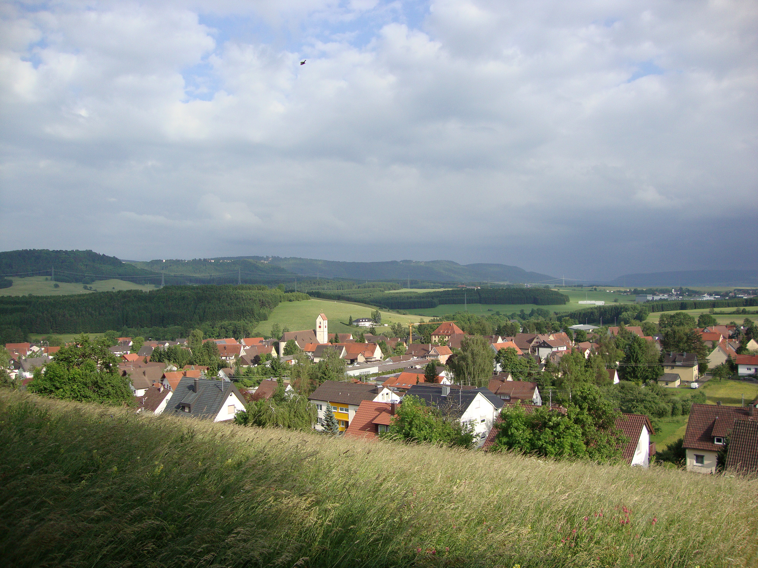 View from Wellendingen´s highest point in east direction.